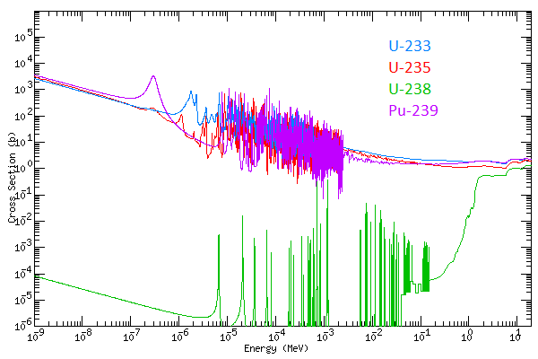 The image shows the fission cross section of U-233. U-235, U-238 and Pu-239 against the neutron energy. Created with the KAERI cross section platter (18: total fission XS).